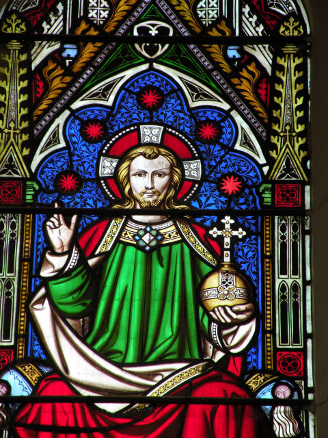 Detail of the chancel east window of SS Peter & Paul parish church, Dry Drayton, Cambridgeshire. The glass is Victorian.